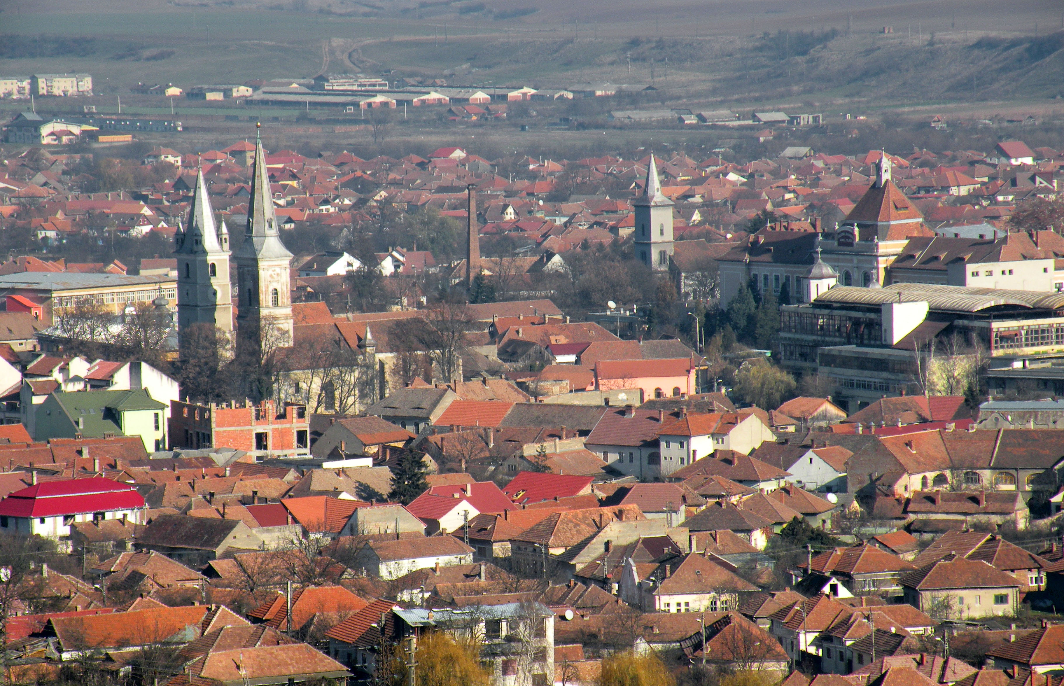 enView of the city of Orăştie, Romania, from "Dealu Mic" hill